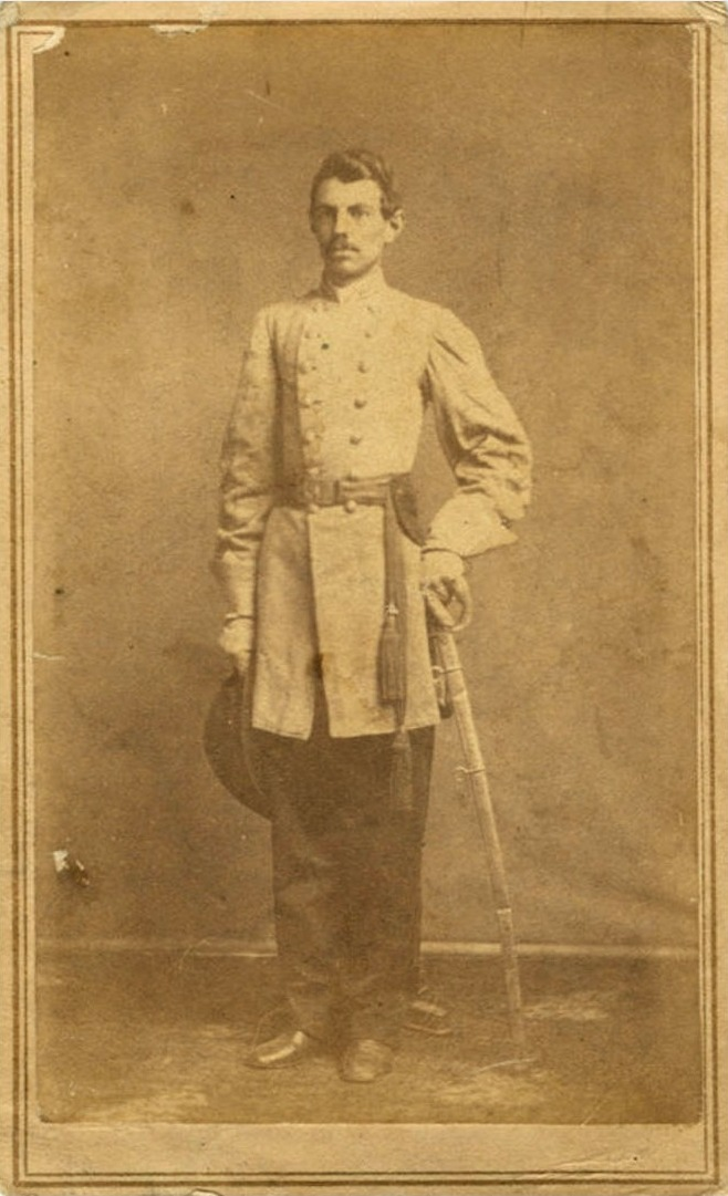 First Lieutenant Thomas Goode Jones, C.S.A. Jones served as an aide-de-camp to General John B. Gordon, C.S.A. He was later governor of Alabama. This carte-de-visite is from the Walter B. Jones Collection.